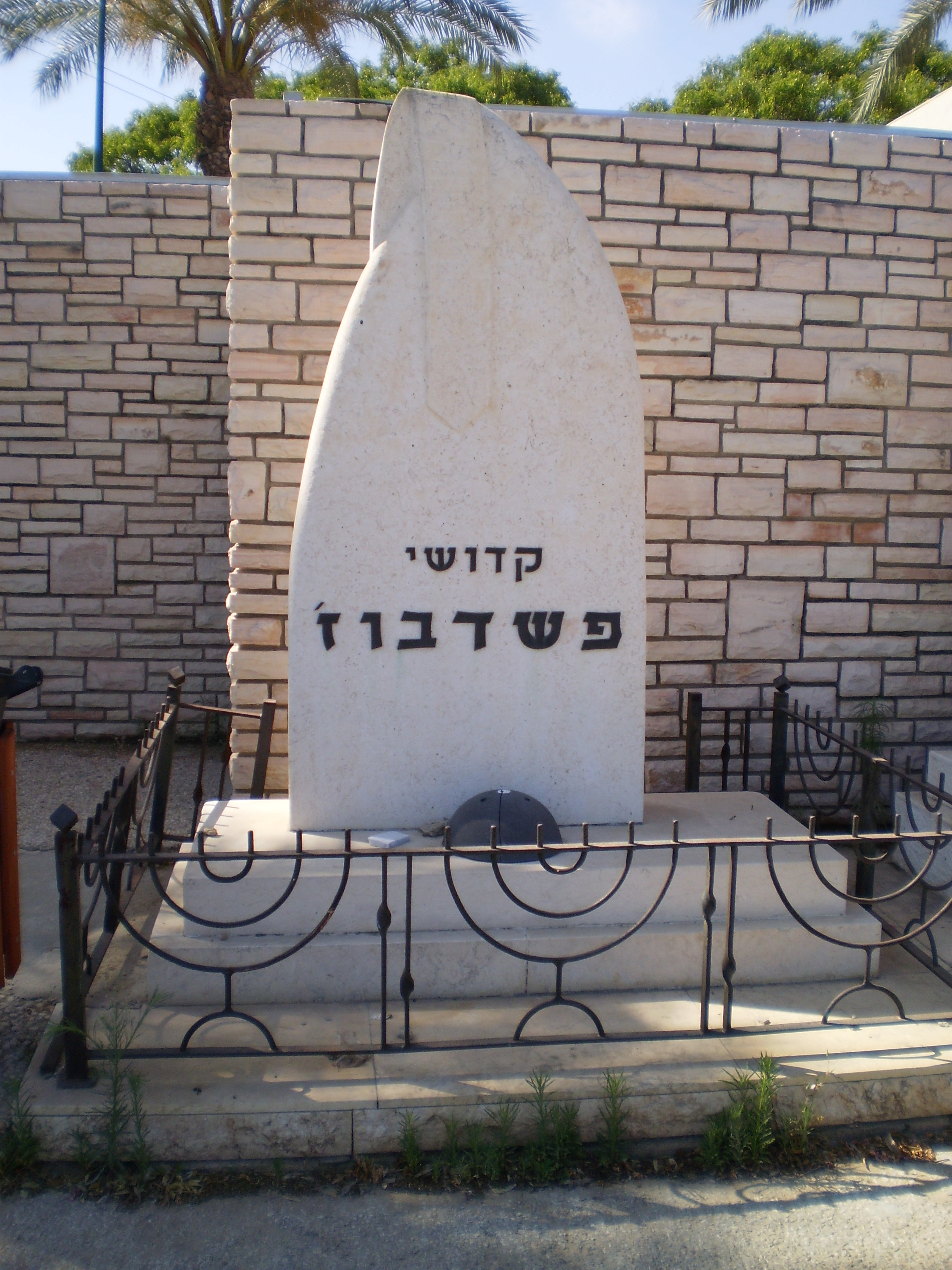 Przedbórz Jewery Holocaust memorial at Holon Cemetery